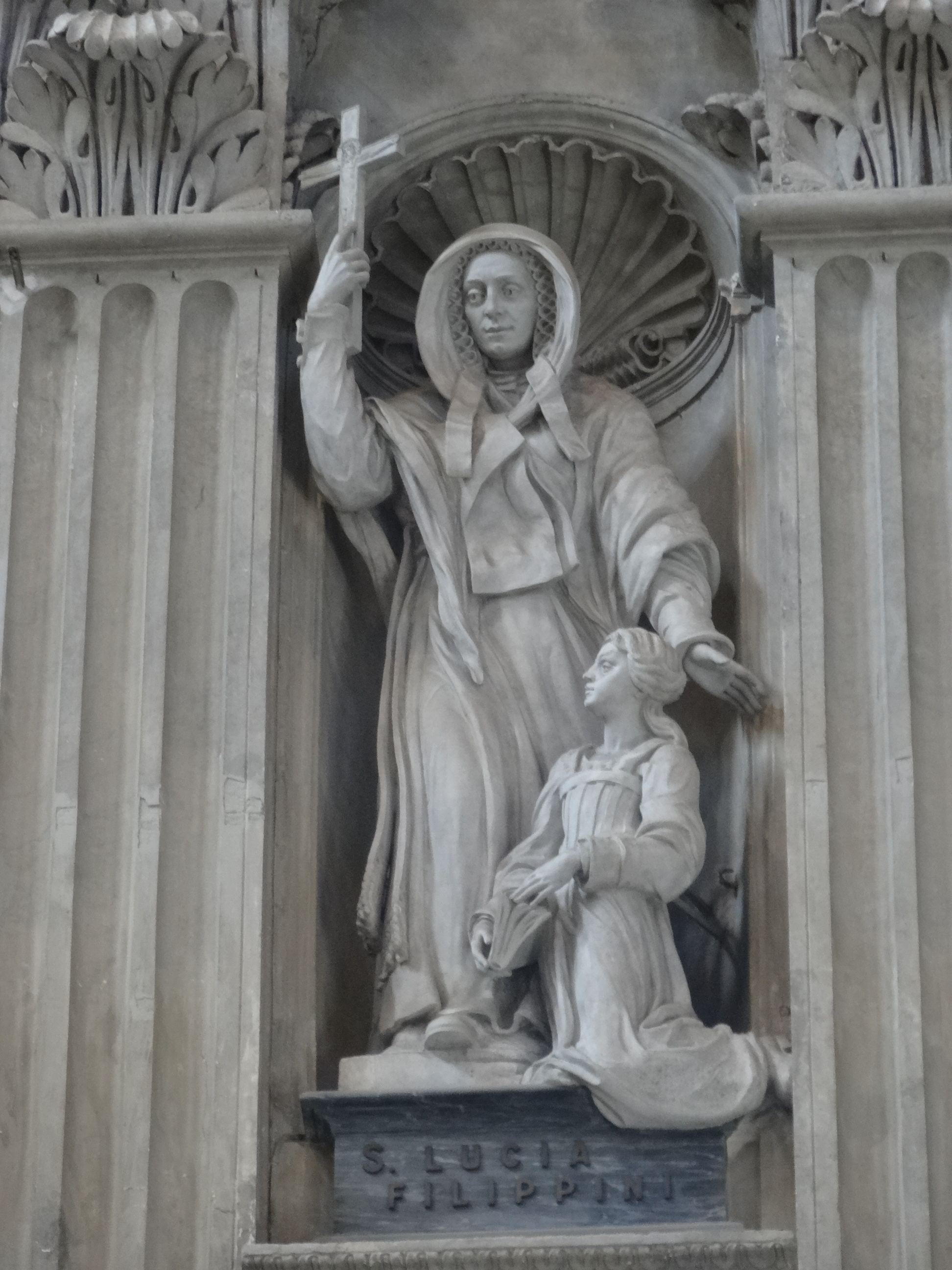 Statues in Saint Peter's Basilica. Lucy Filippini (Lucia Filippini). Founder Statue by Silvio Silva, 1949